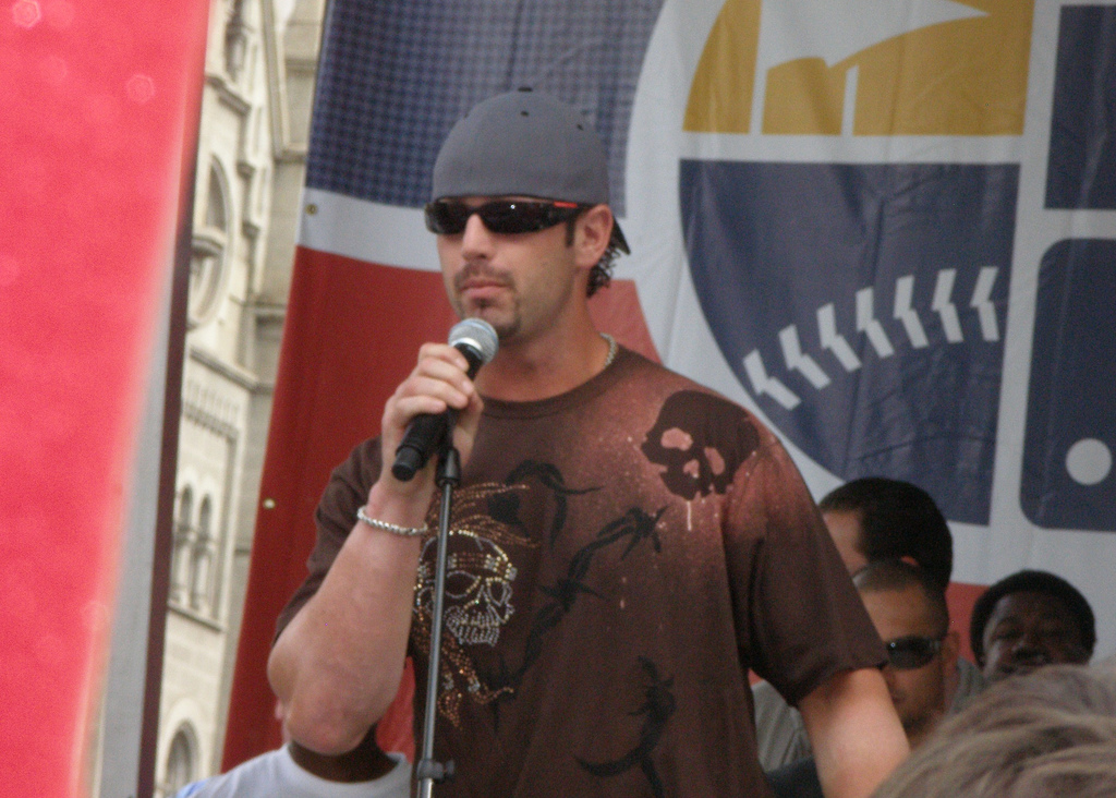 Aaron Rowand at 2007 rally celebrating team's playoff birth.